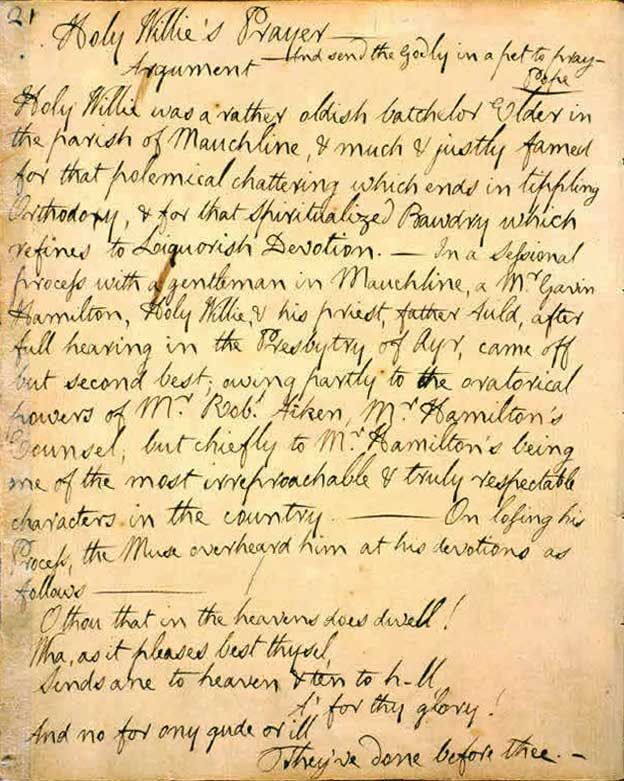 Holy Willie's Prayer is a poem by Robert Burns. It was written in 1785 and first printed anonymously in an eight page pamphlet in 1799.